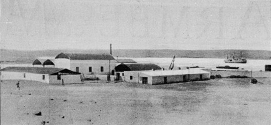 Naval repair facility, Perim island, circa 1900. Photograph from French magazine Armée et Marine, 4 May 1902 issue.